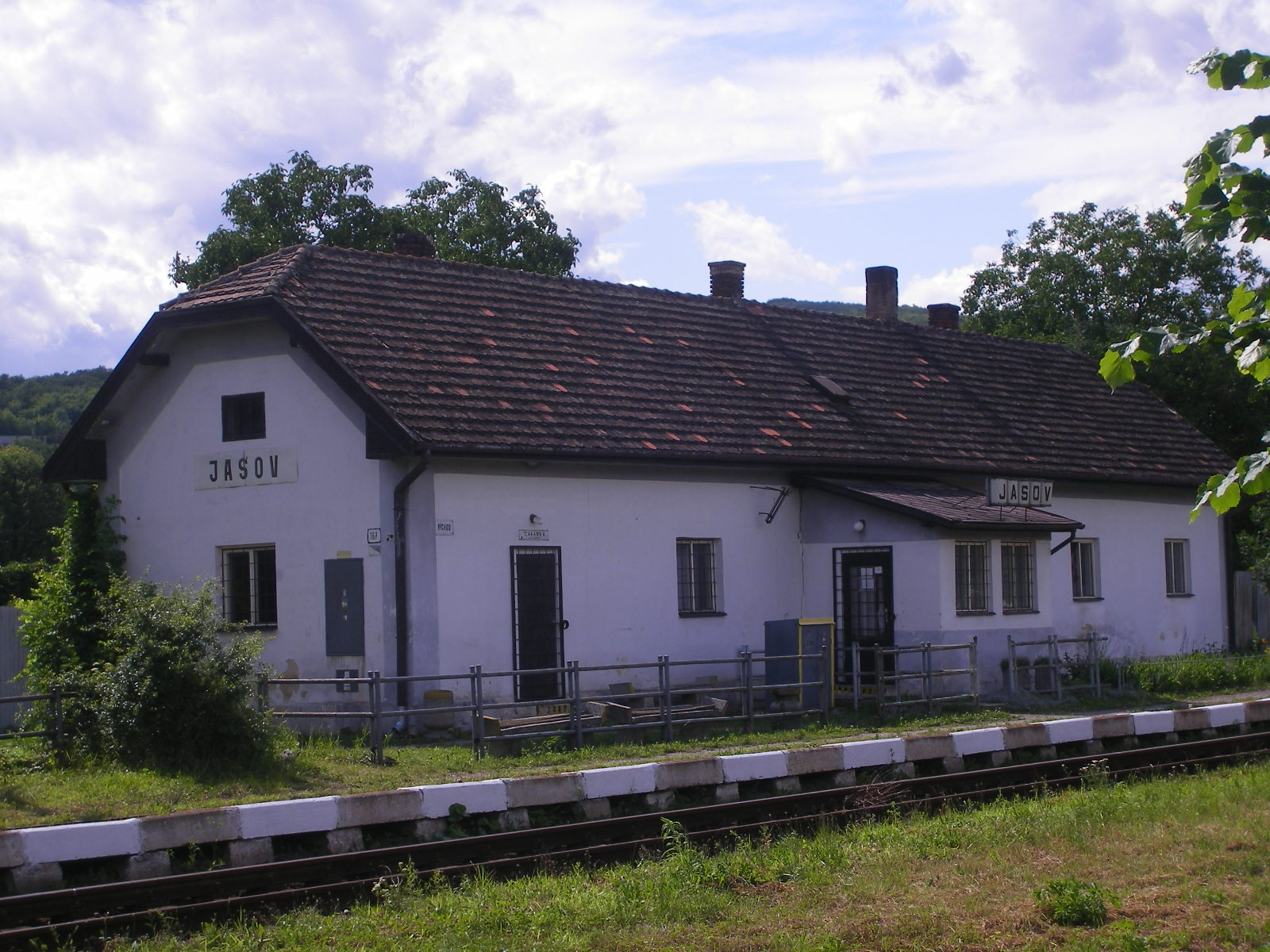 Jasov - train station